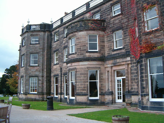 Nidd Hall. This is now a Warners Hotel